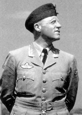 Ole Imerslun Reistad, Norwegian WWII air force leader as an oberstløytnant during World War II